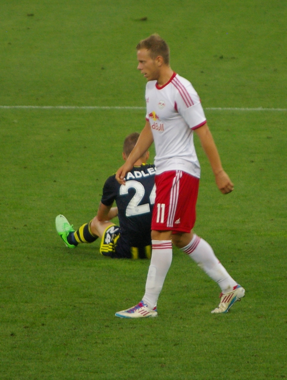 CL league qualifier